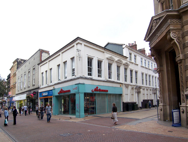 Ann Summers Shop. This Ann Summers shop stands on the corner of Whitefriargate and Parliament Street (Good Georgian terraces). Hull is improving but in some respects it still has long way to go.